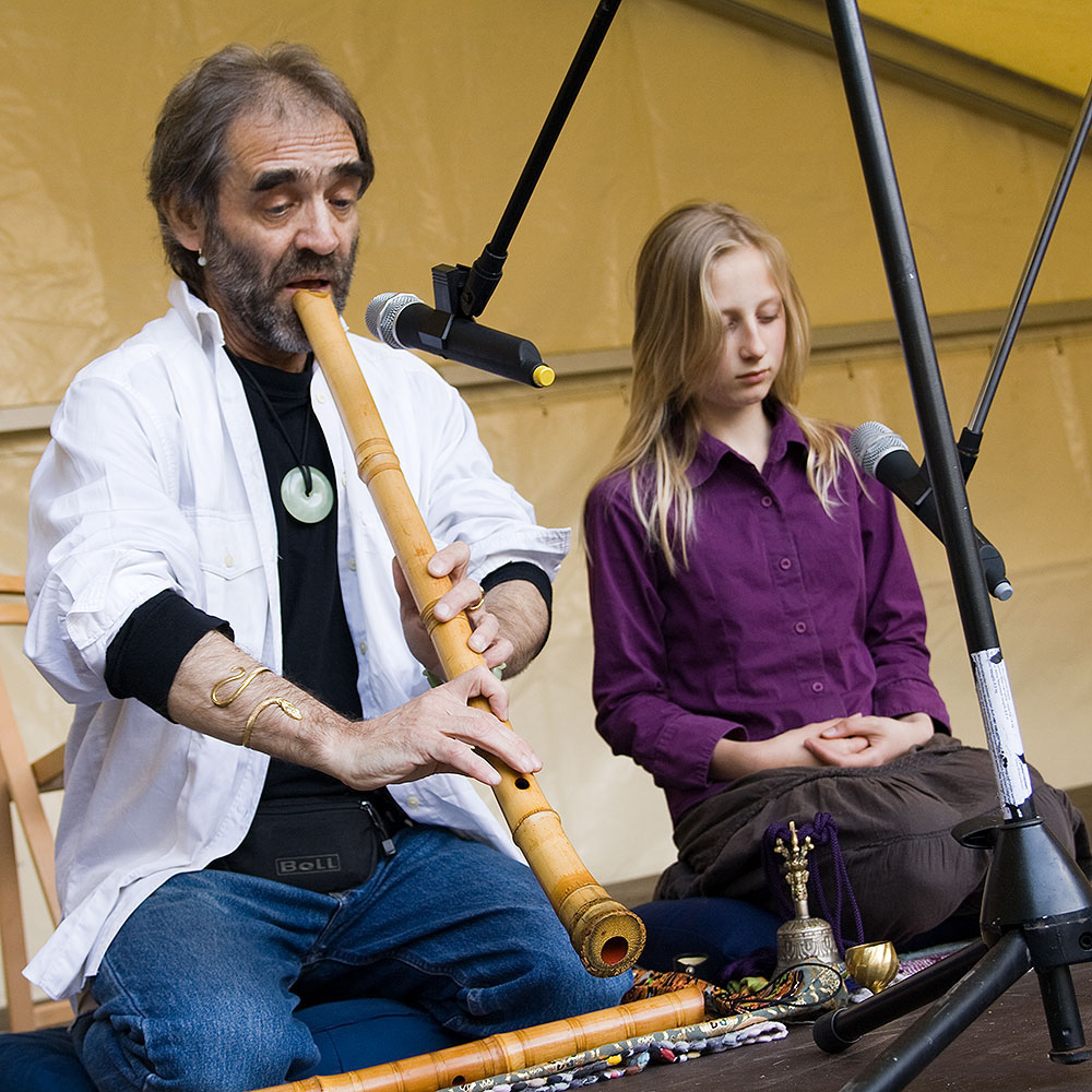 Vlastislav Matoušek with his daughter Anežka performing on Svátek čaje 2009 (EU, Těšín).